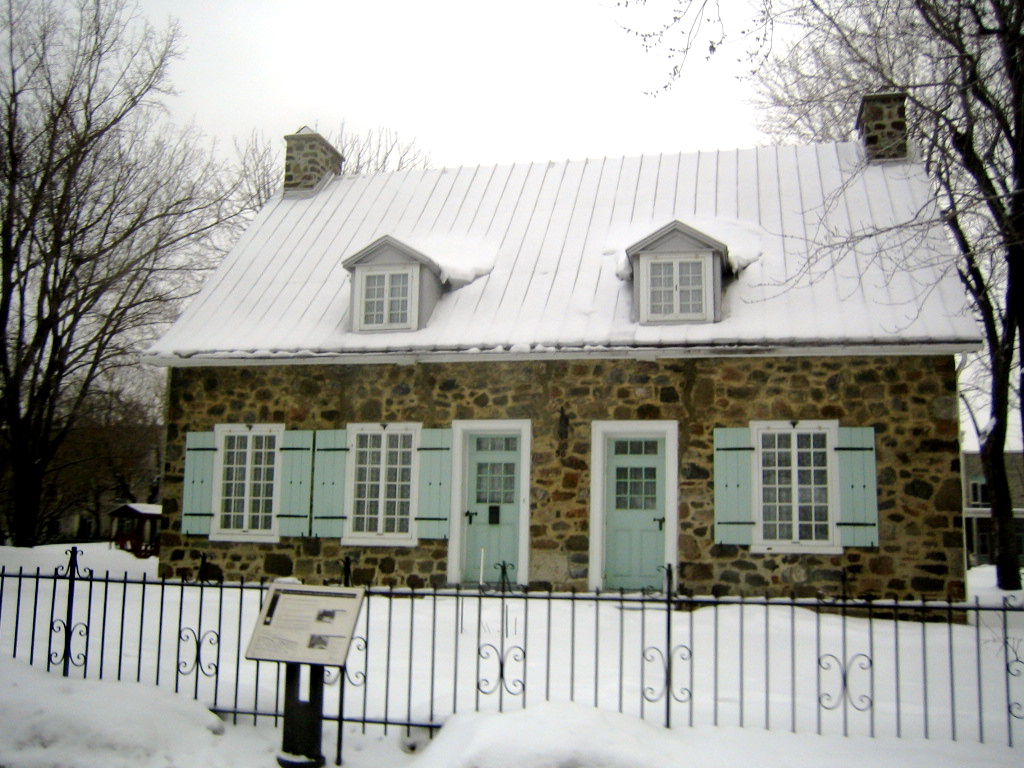 Historic building in the city of Longueuil, Quebec, Canada.